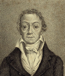 Portrait of Pietro Andolfati, actor (1750-1828), before 1840.